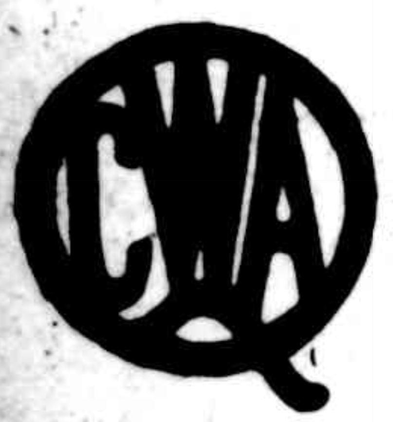 Badge of the Queensland Country Women's Association, 1928, still used as a logo today